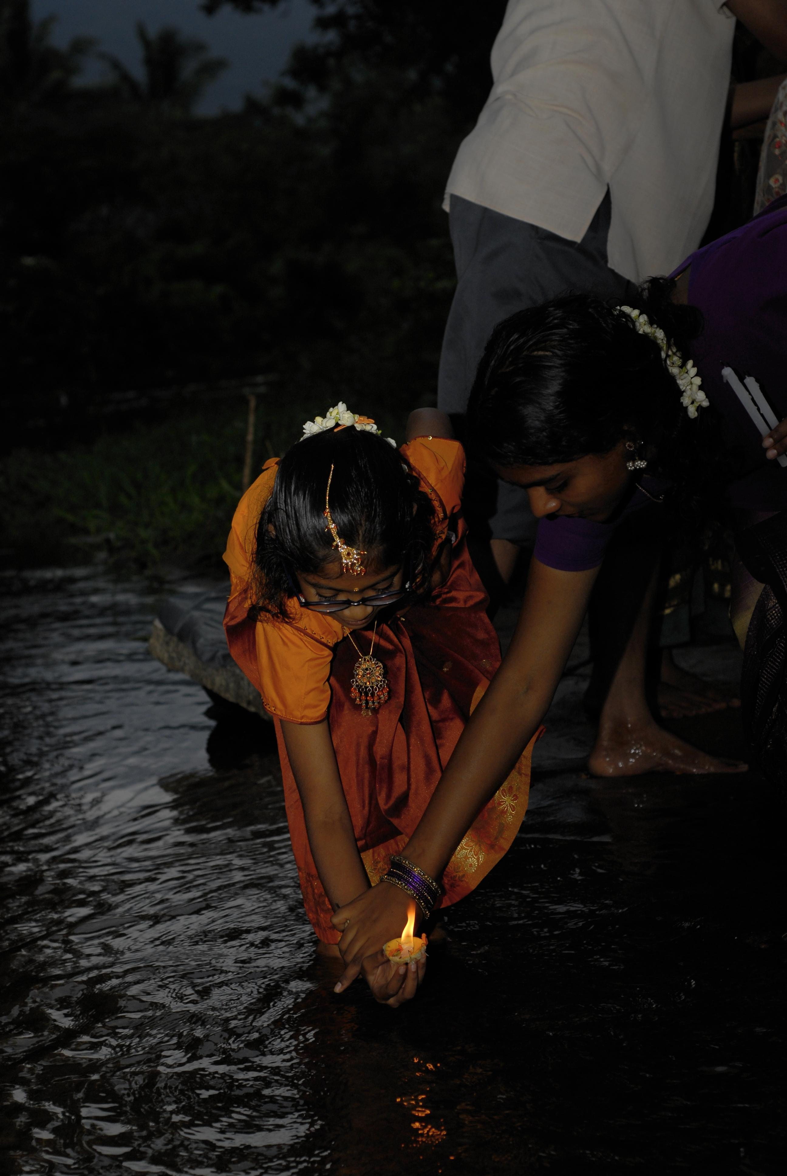 School Girl Floats the light